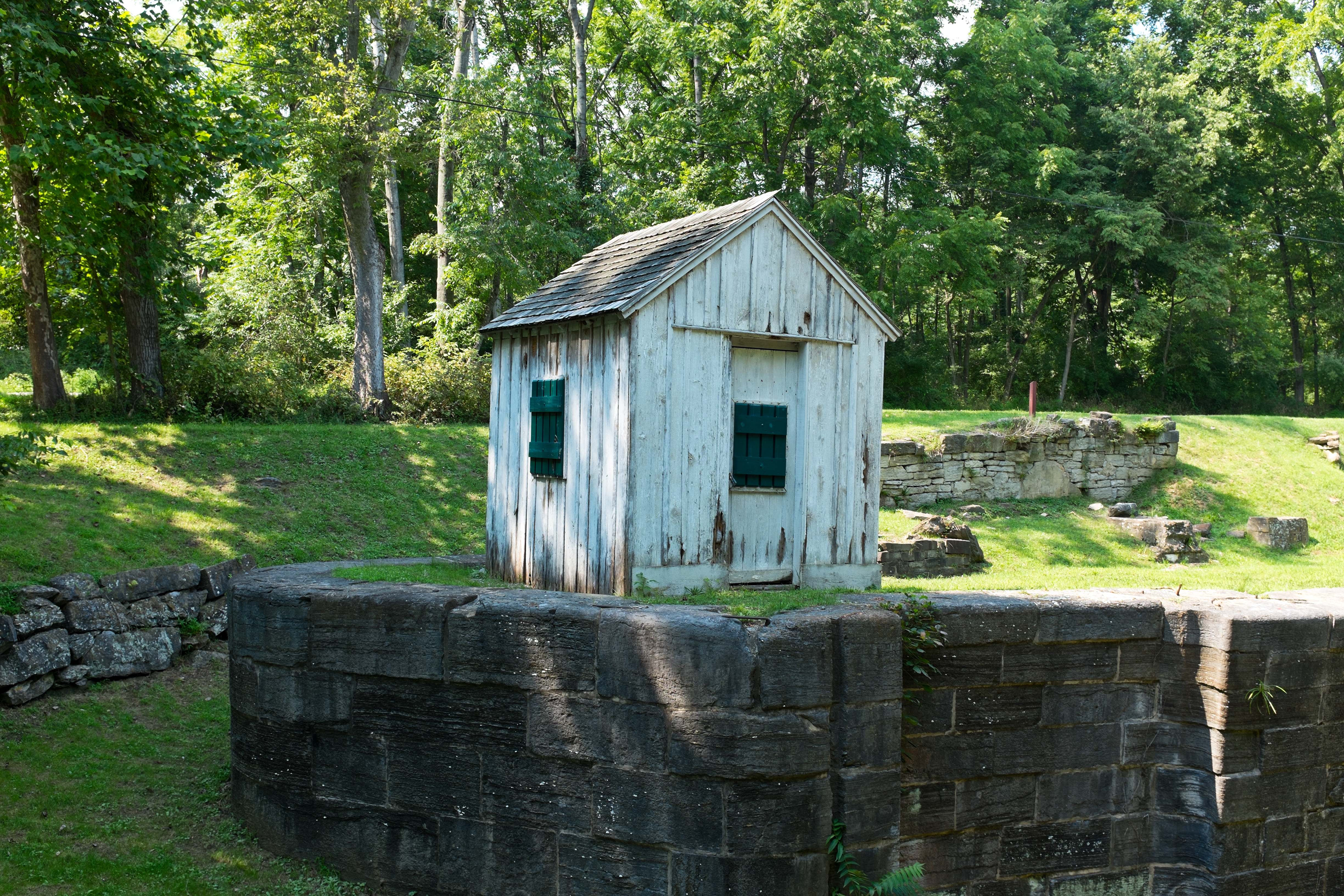 A Lock tender's Shanty. This one is at Lock 50, the upstream most of 4 locks, looking up the beginning of the 14 mile level. This is so that the lockkeeper could look out for boats, but didn't have to be in his house.